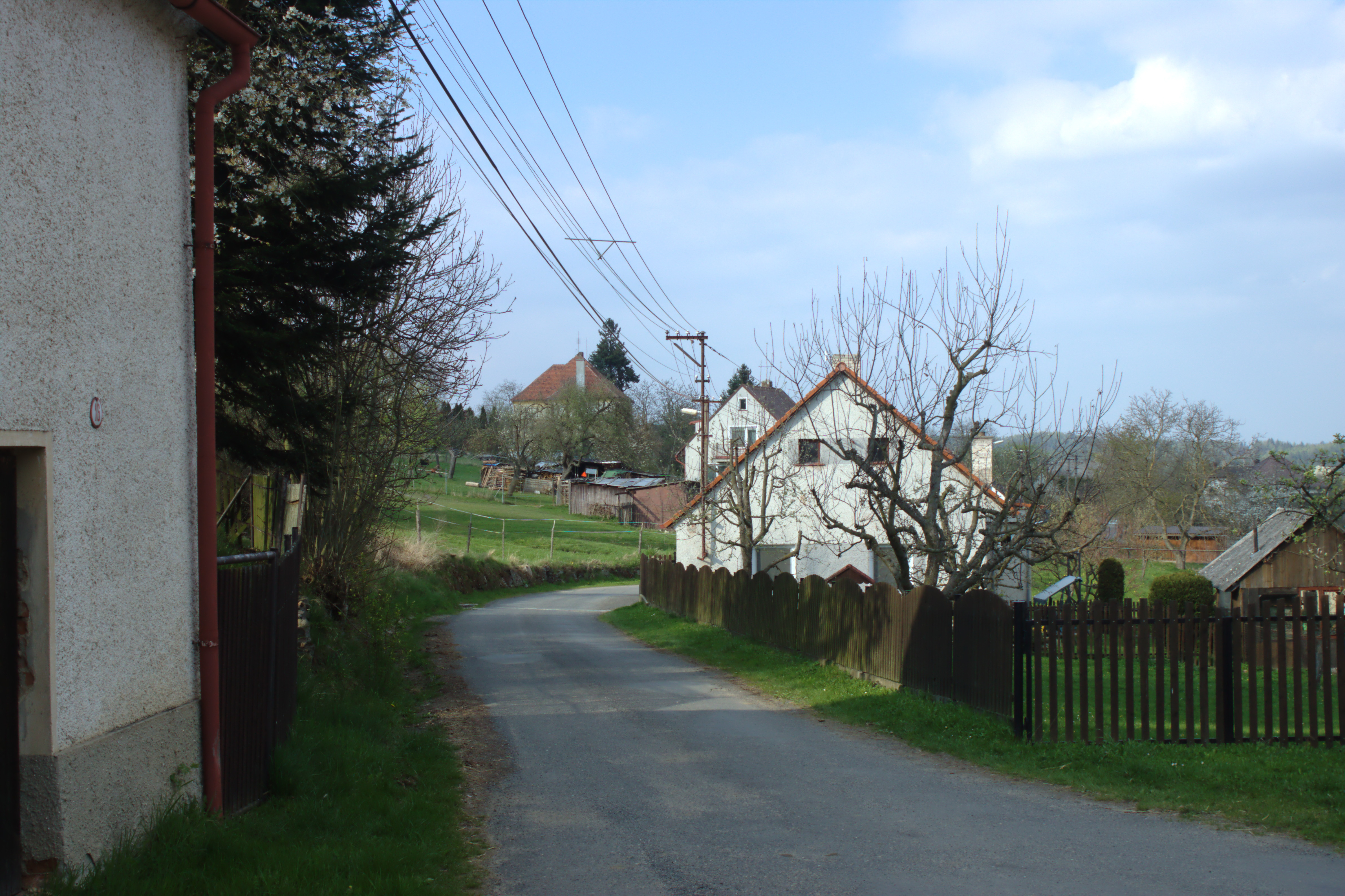 Main road in the village of Krutěnice, Plzeň Region, CZ